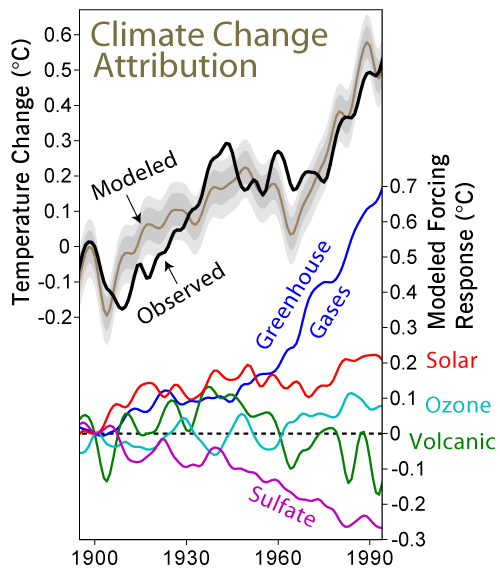 See extending Description below